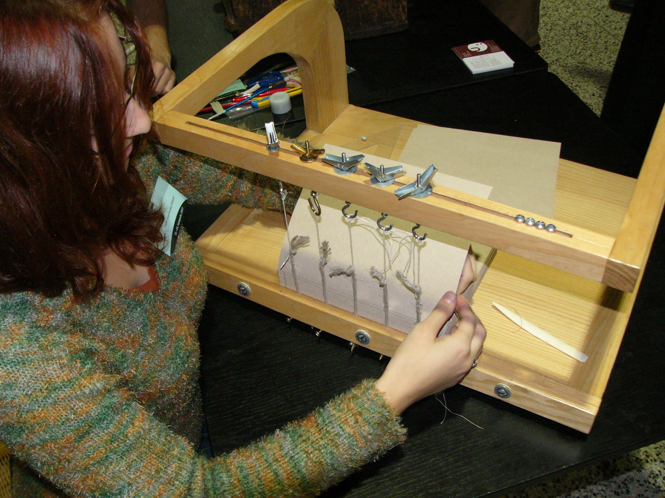 bookbinding on sewing frame. There is bone folder (folding stick) on the right too.